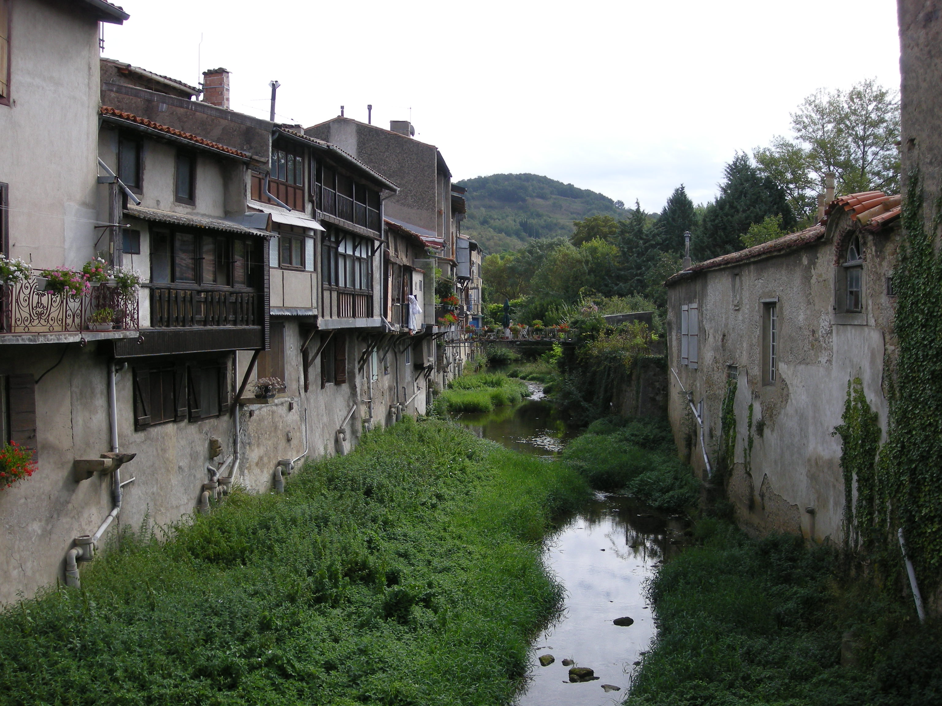 Blau River in Chalabre (Aude)